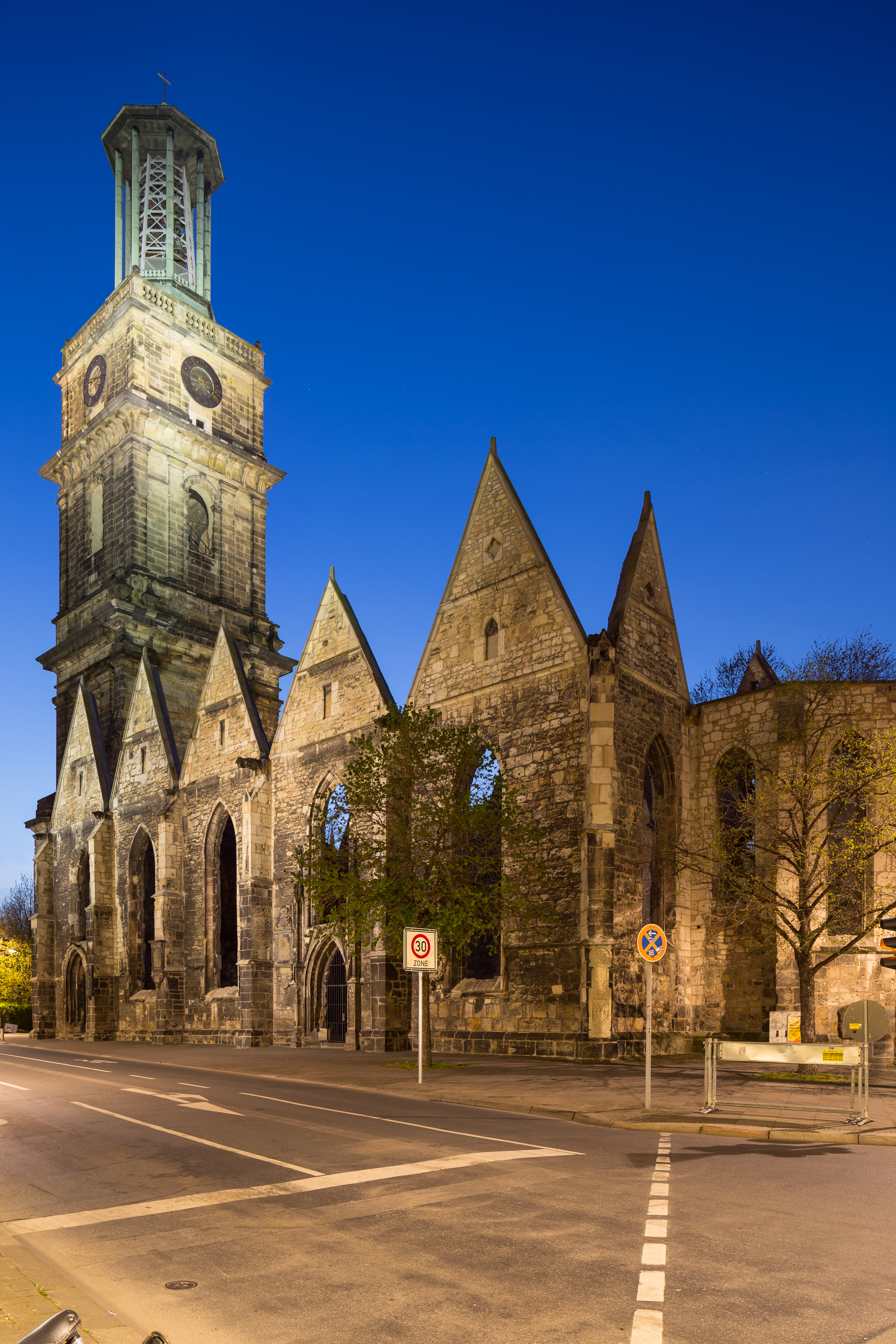 Ruin of Aegidienkirche church, serving as memorial, located at Breite Strasse and Osterstrasse in Mitte quarter of Hannover, Germany.